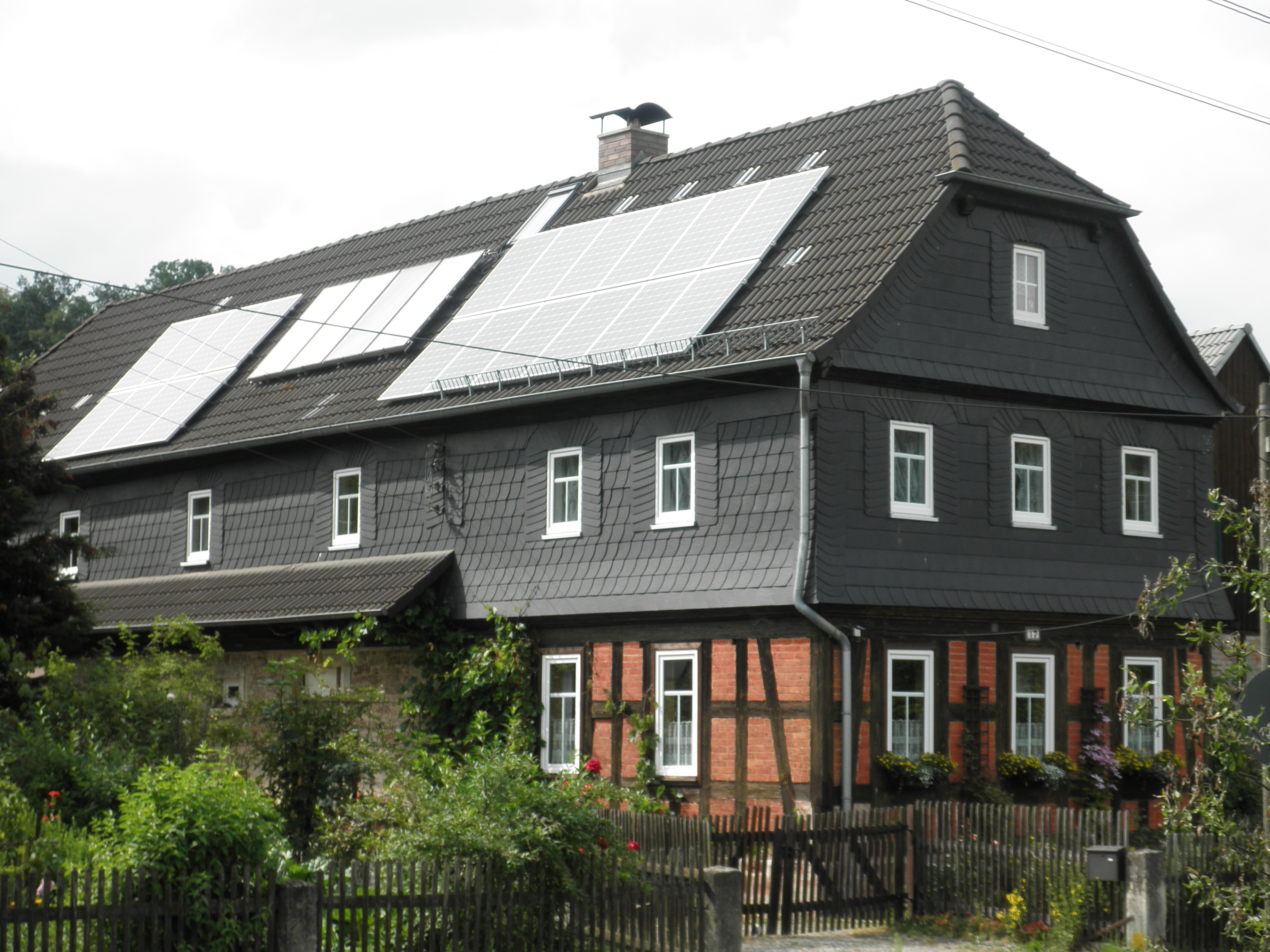 Solar-House in Weißbach in Thuringia